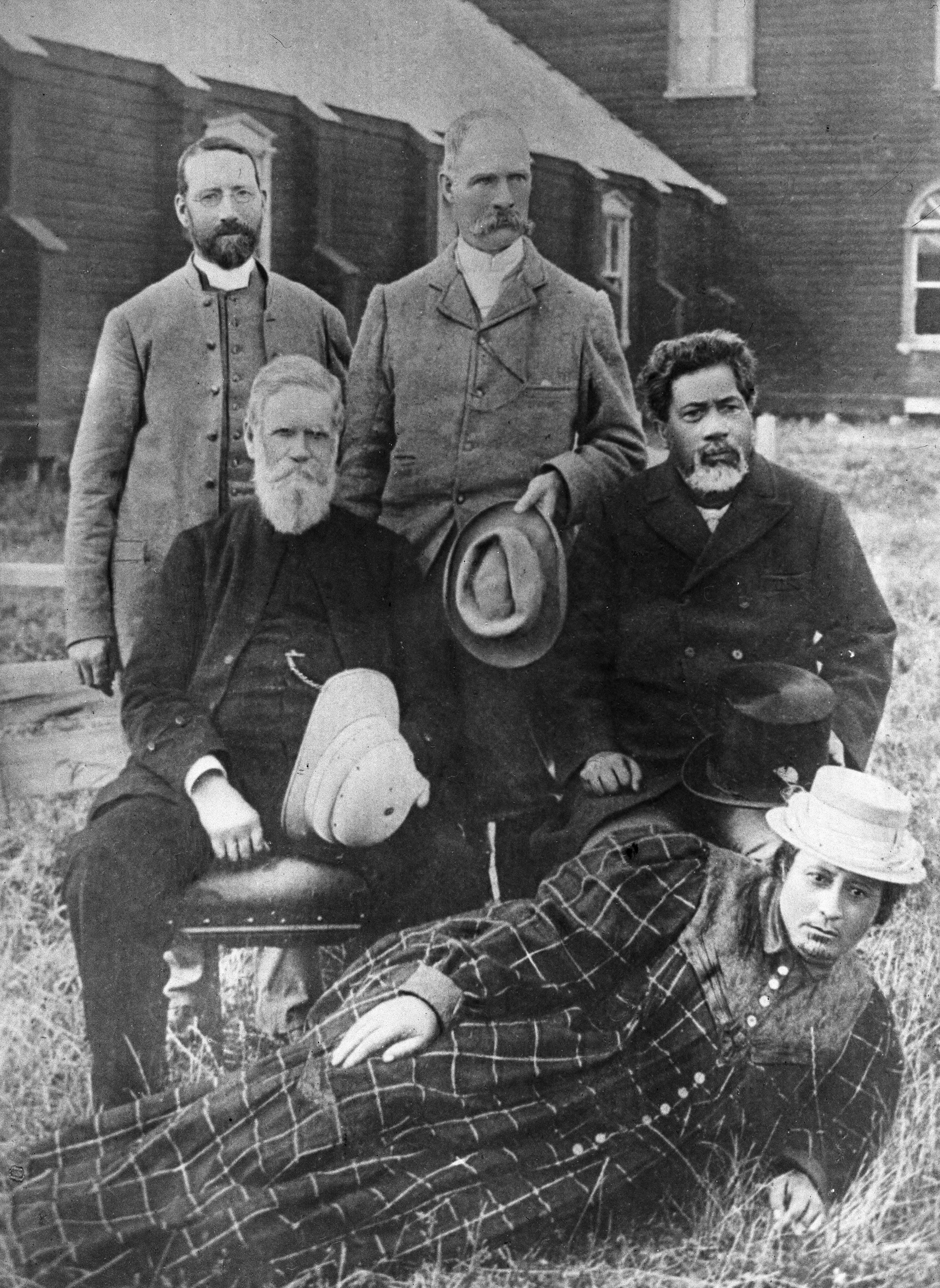 Photograph of Canon Samuel Williams (seated, left), Tamahau Mahupuku (right), Mahupuku's first wife Arete Mahupuku (on ground) and two others at Papawai; the group is in front of the large two-storied meeting house that stood at Papawai.